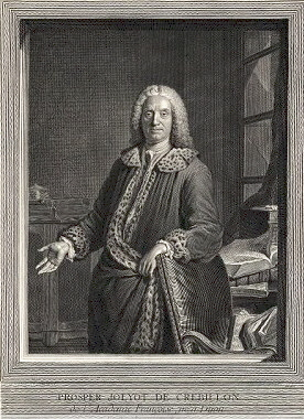 Portrait of Prosper Jolyot de Crébillon (1674-1762)